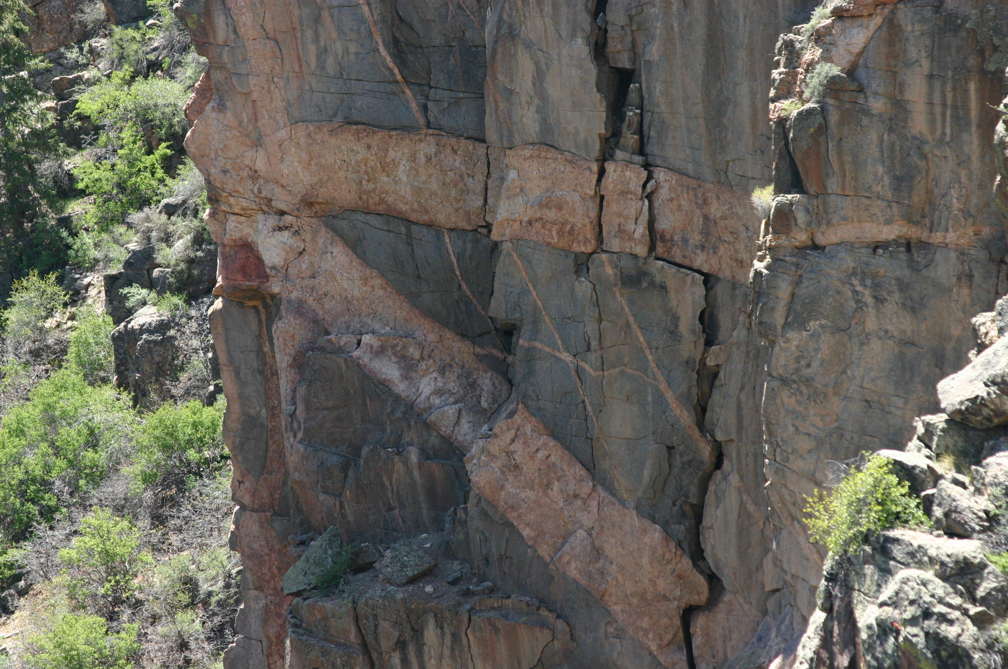 Light-colored intersecting dikes (geology) over a backdrop of black cliff